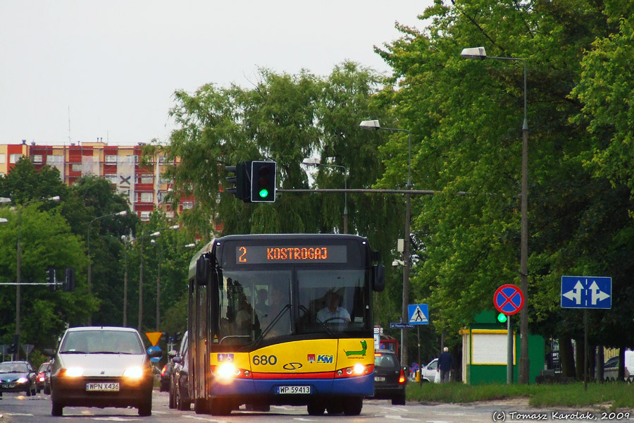 Solaris Urbino 12 bus in Płock, Poland. Year built 2007, KM Płock operator.